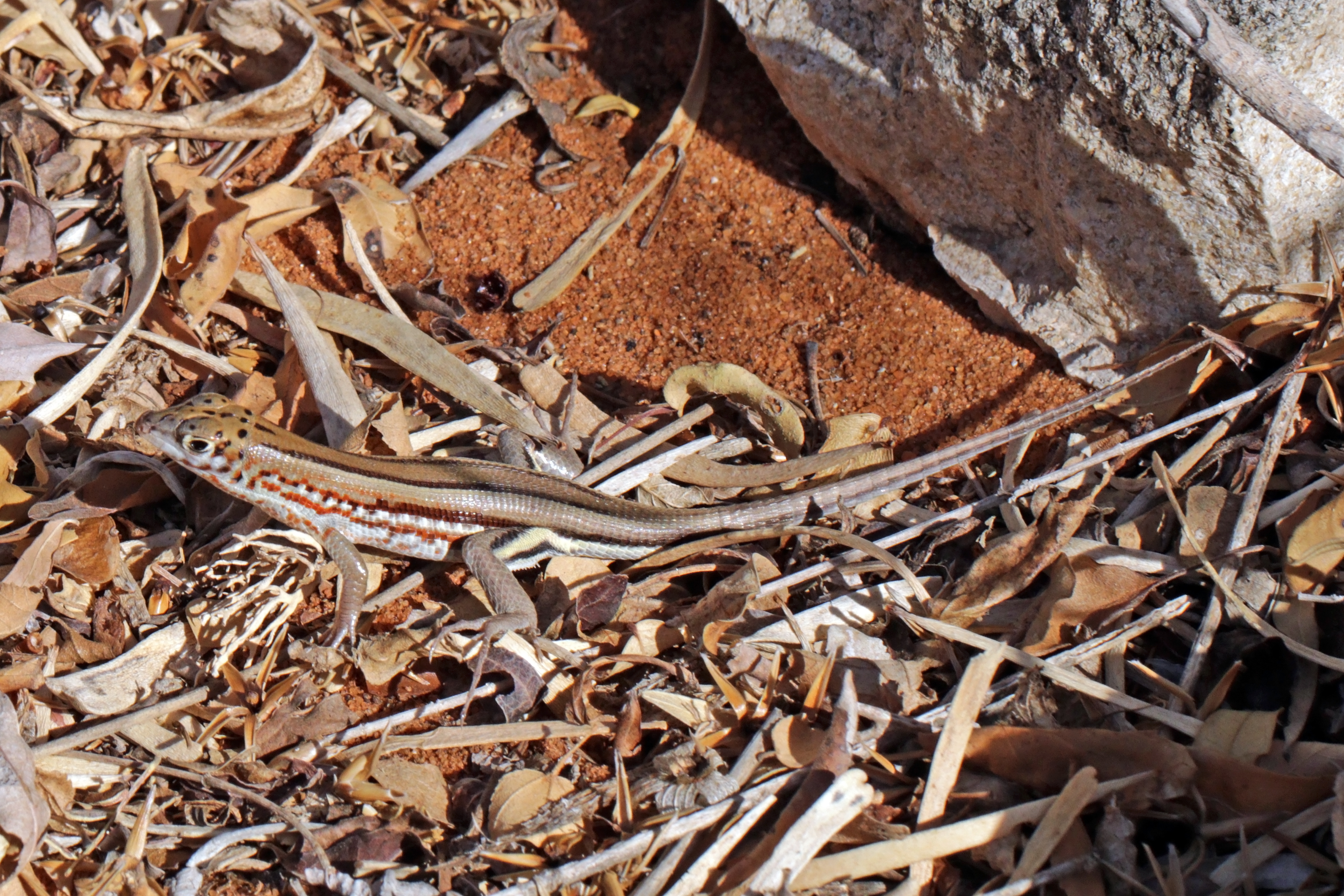 Peters' keeled plated lizard (Tracheloptychus petersi), Reserve Reniala, Madagascar